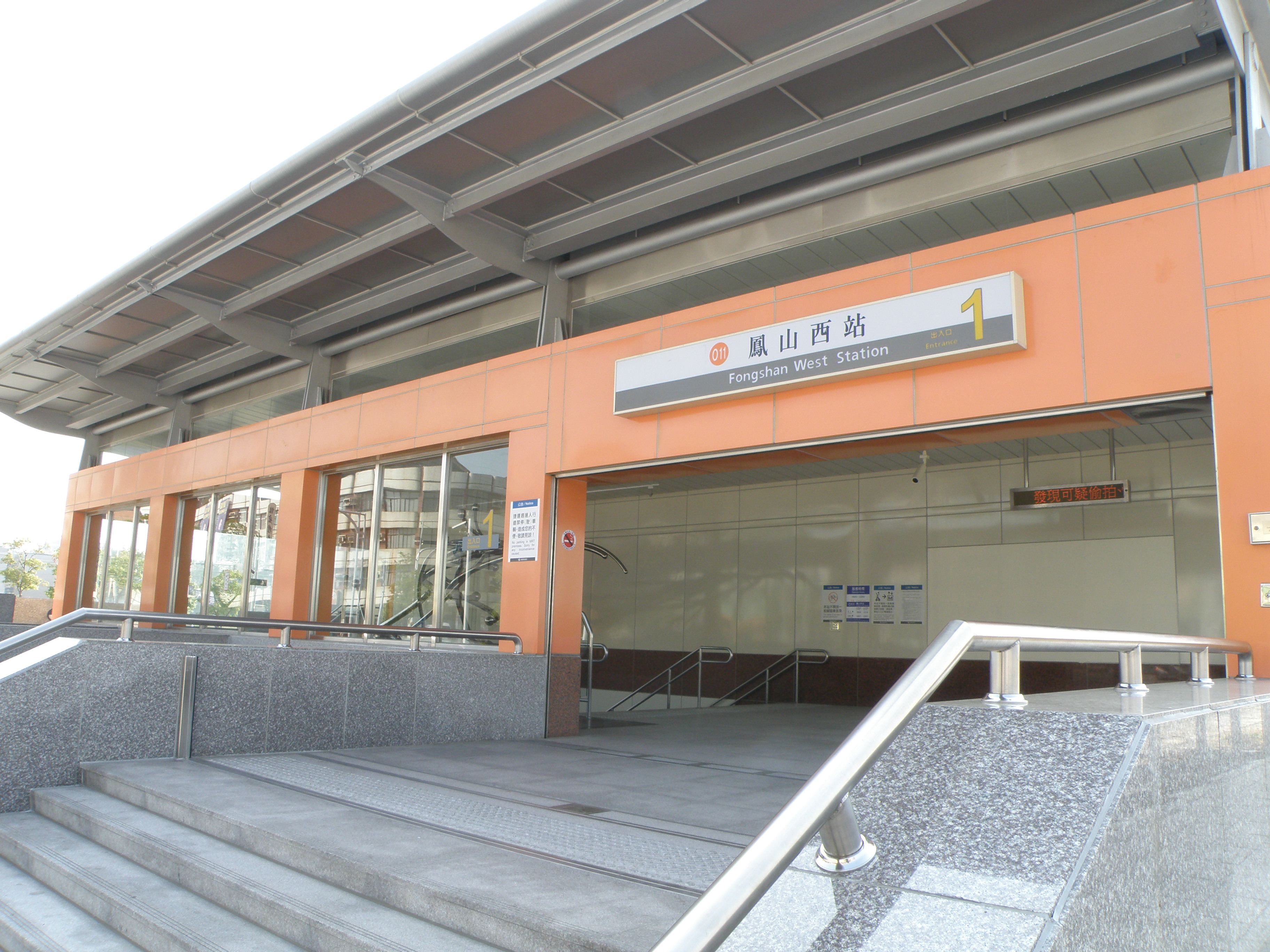 Exit No.1 of Fongshan West Station, Kaohsiung Mass Rapid Transit.